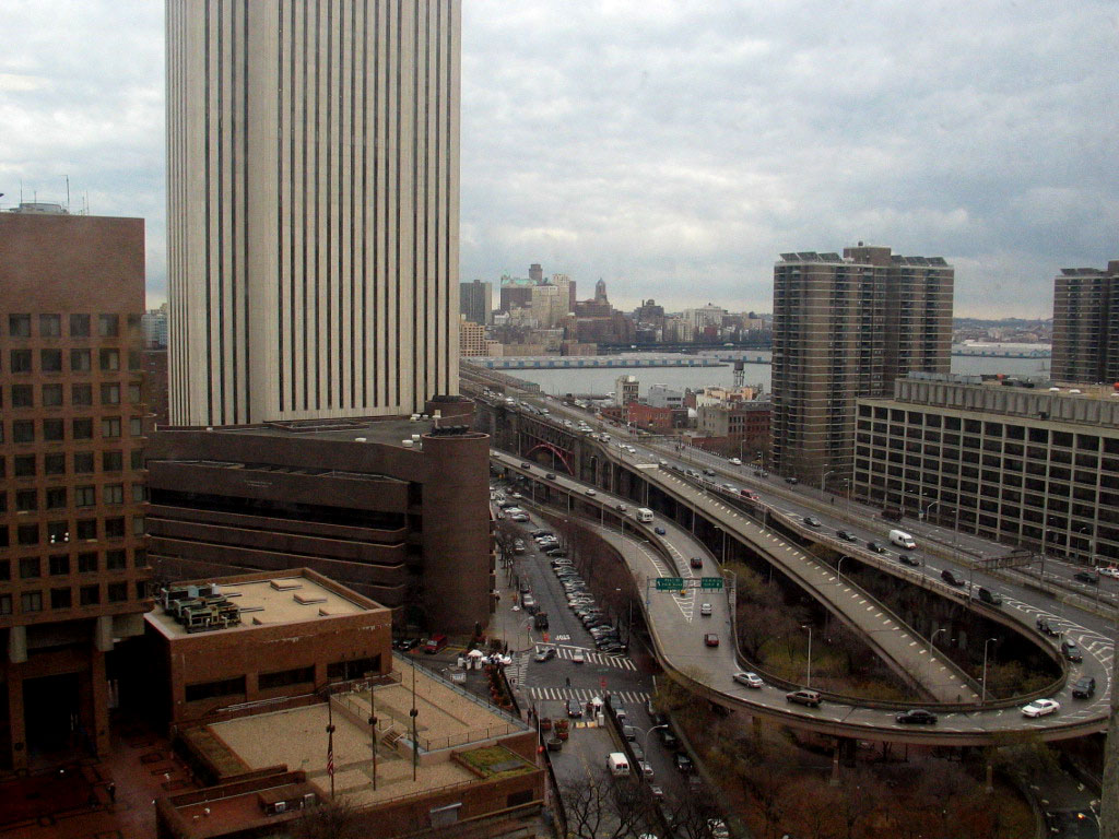 Traffic enters manhattan from Brooklyn Bridge by ramps